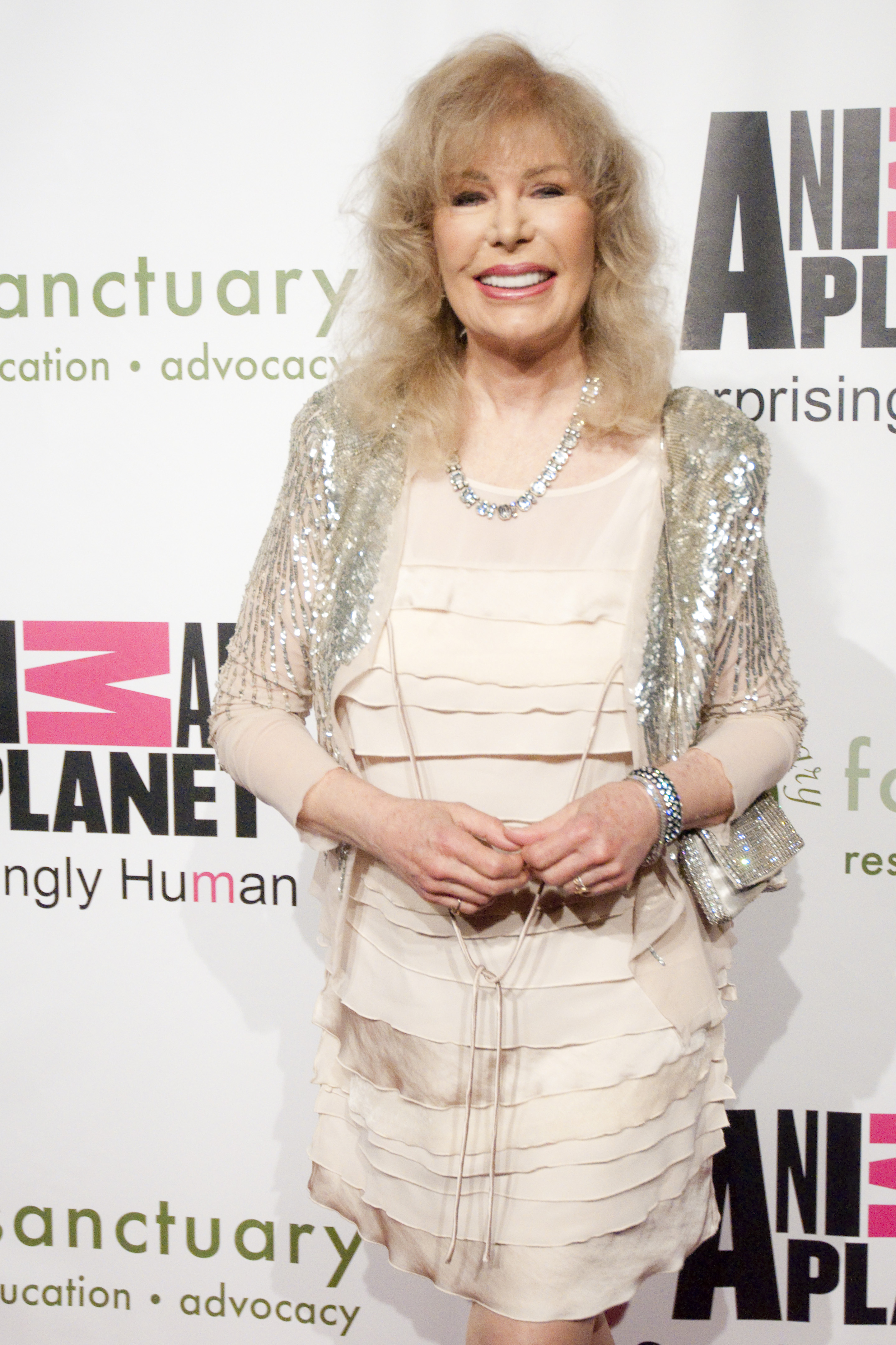 Loretta Swit at the Farm Sanctuary 25th Anniversary Gala in New York City.